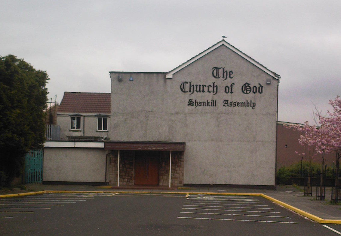 The Church of God Shankill Assembly, Conway Street, Shankill Road, Belfast